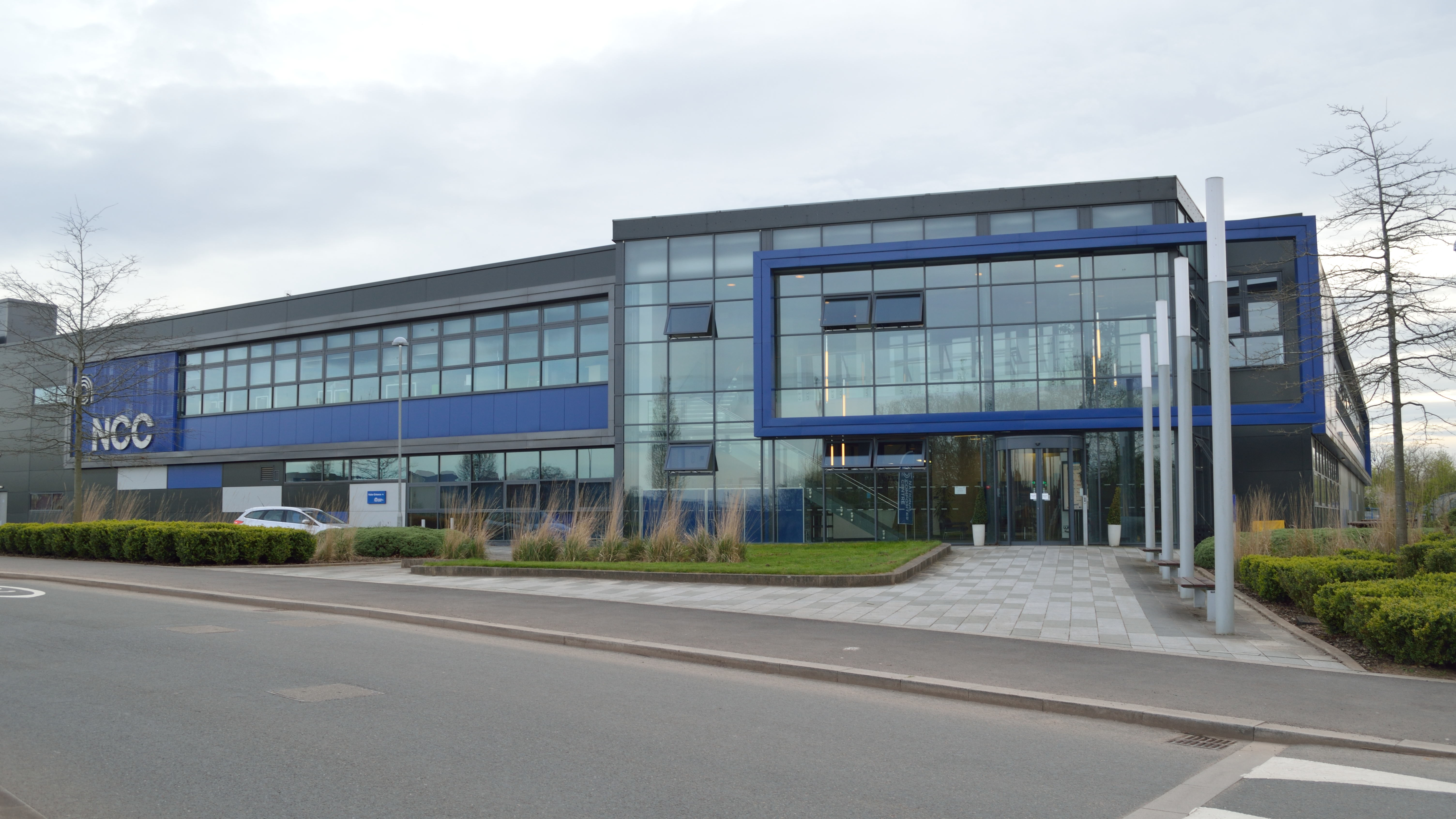 National Composites Centre, a carbon fibre R&D centre, at the Bristol and Bath Science Park.